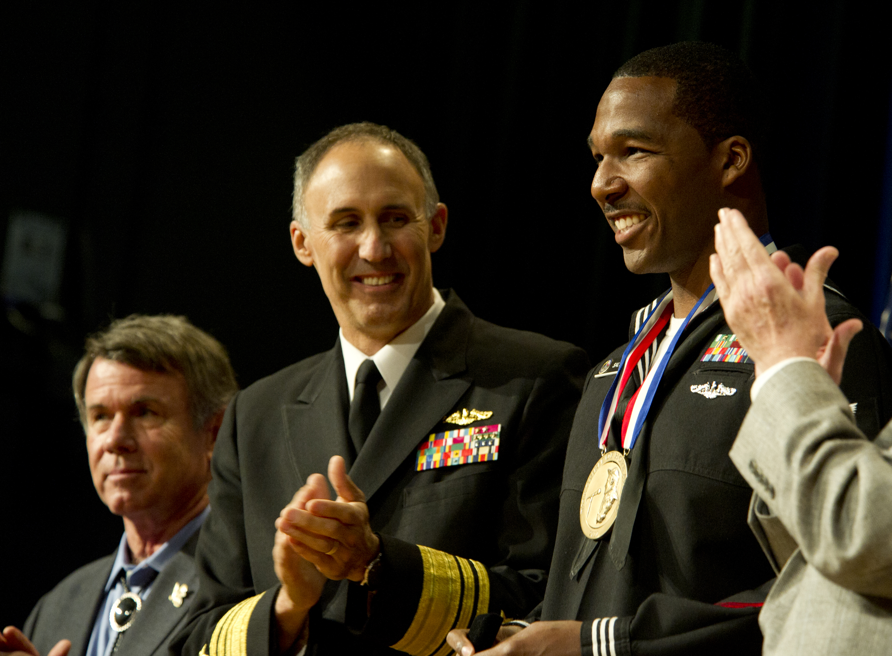 WASHINGTON (Nov. 15, 2011) Cryptologic Technician (Collection) 1st Class Jamar Salters receives his 2010 Spirit of Hope Award by Vice Adm. Scott R. Van Buskirk, chief of naval personnel. The award is given to men and women of the United States Armed Forces, entertainers and other distinguished Americans and organizations whose patriotism and service reflect that of Mr. Bob Hope. (U.S. Navy Photo by Mass Communication Specialist 2nd Class David Danals/Released)